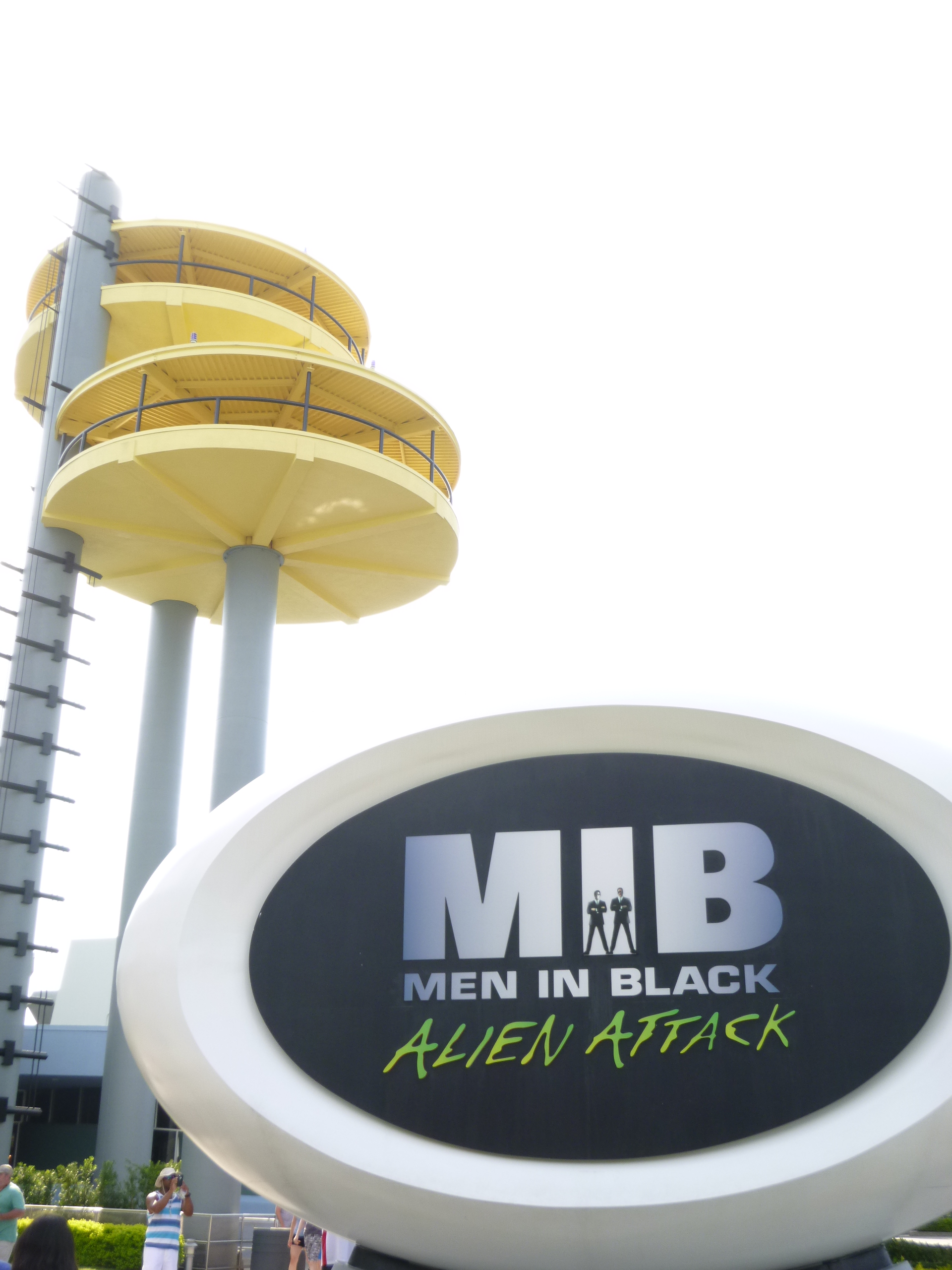 Men in Black: Alien Attack sign with the 1964 New York State Pavilion's Observation Towers (inspiration)